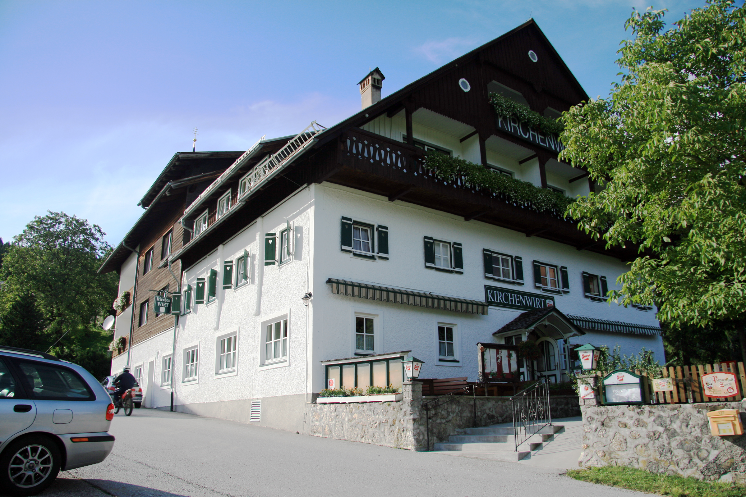 Family hotel Kirchenwirt in village Gosau, Upper Austria